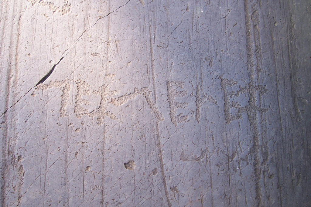 Inscription in camuninan alphabet, rock 50 in Naquane area. Capo di Ponte, Val Camonica